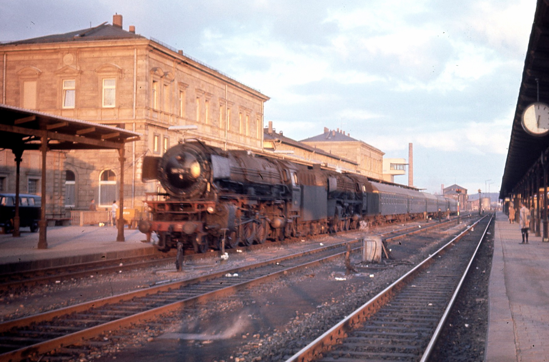 Two 001 class pacifics in evening light at Hof Hbf, Easter 1974